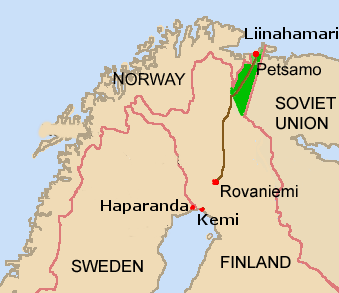 The road between Rovaniemi and Liinahamari